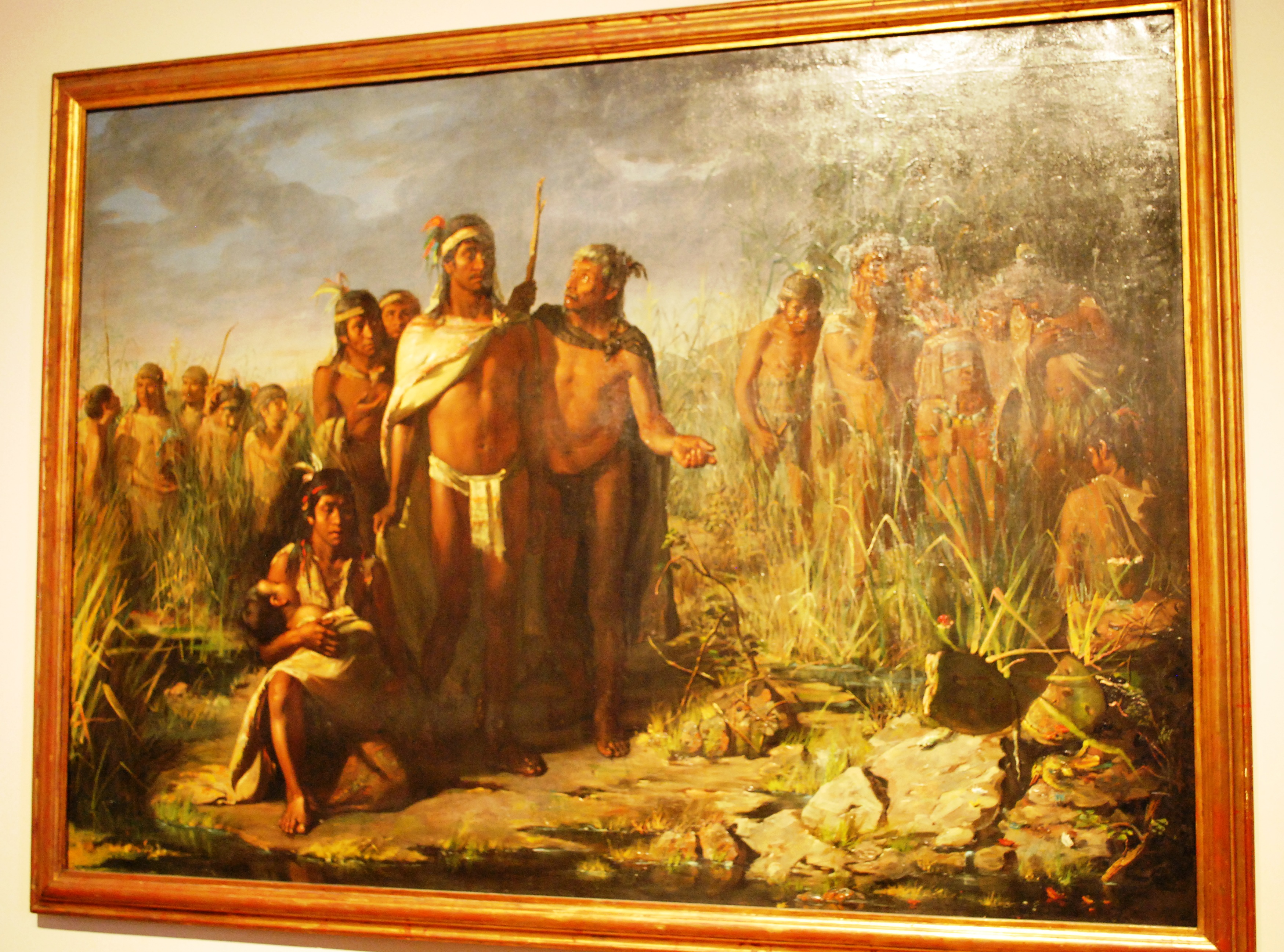 Painting Fundación de la ciudad de México by José María Jara (1867-1939) done in 1889 on display at the Museo Nacional de Arte in Mexico City